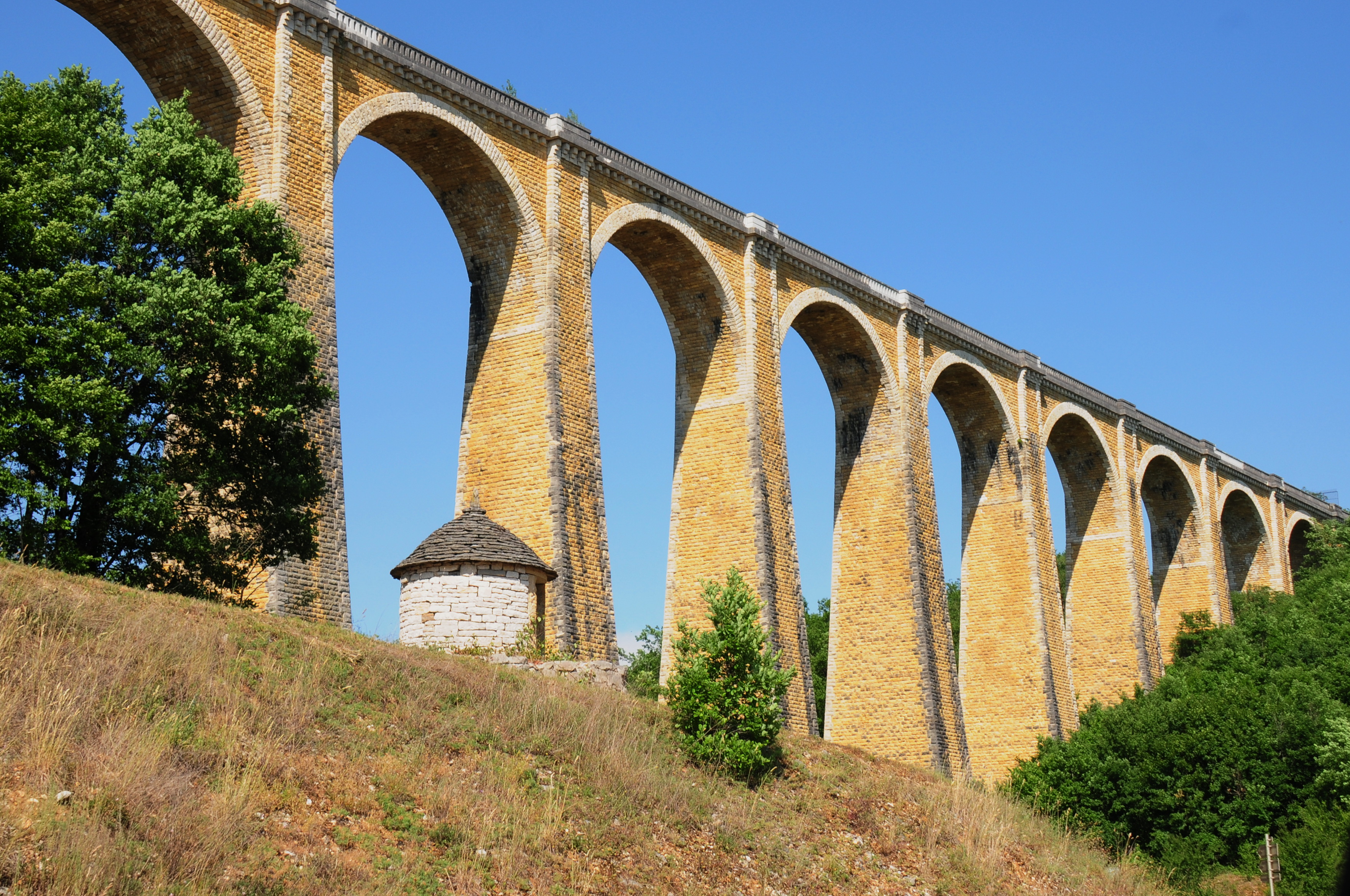 2 typical stone architecture relicts in the Dordogne: stone bridges and so called bouriane (the small storage house at the foot of the bridge)